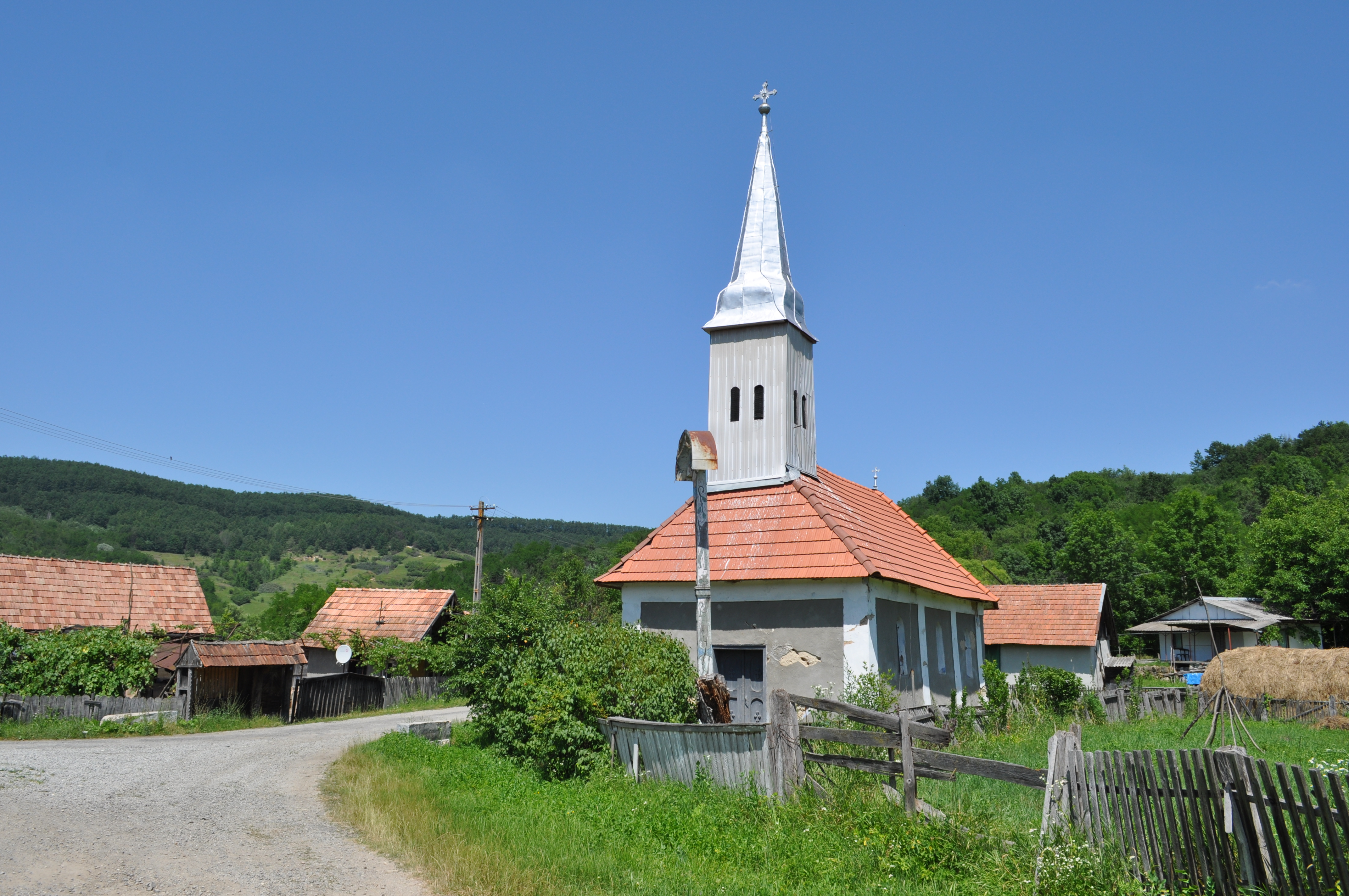 Stoboru, Sălaj county, Romania